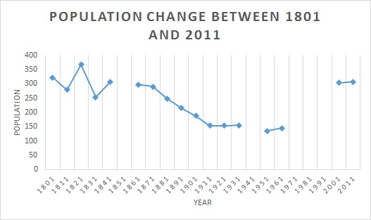 Population change in Glatton between 1801 and 2011.